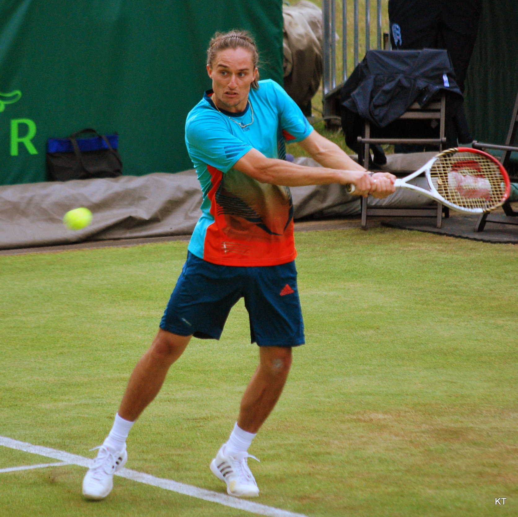 The Boodles, Stoke Park 2012.